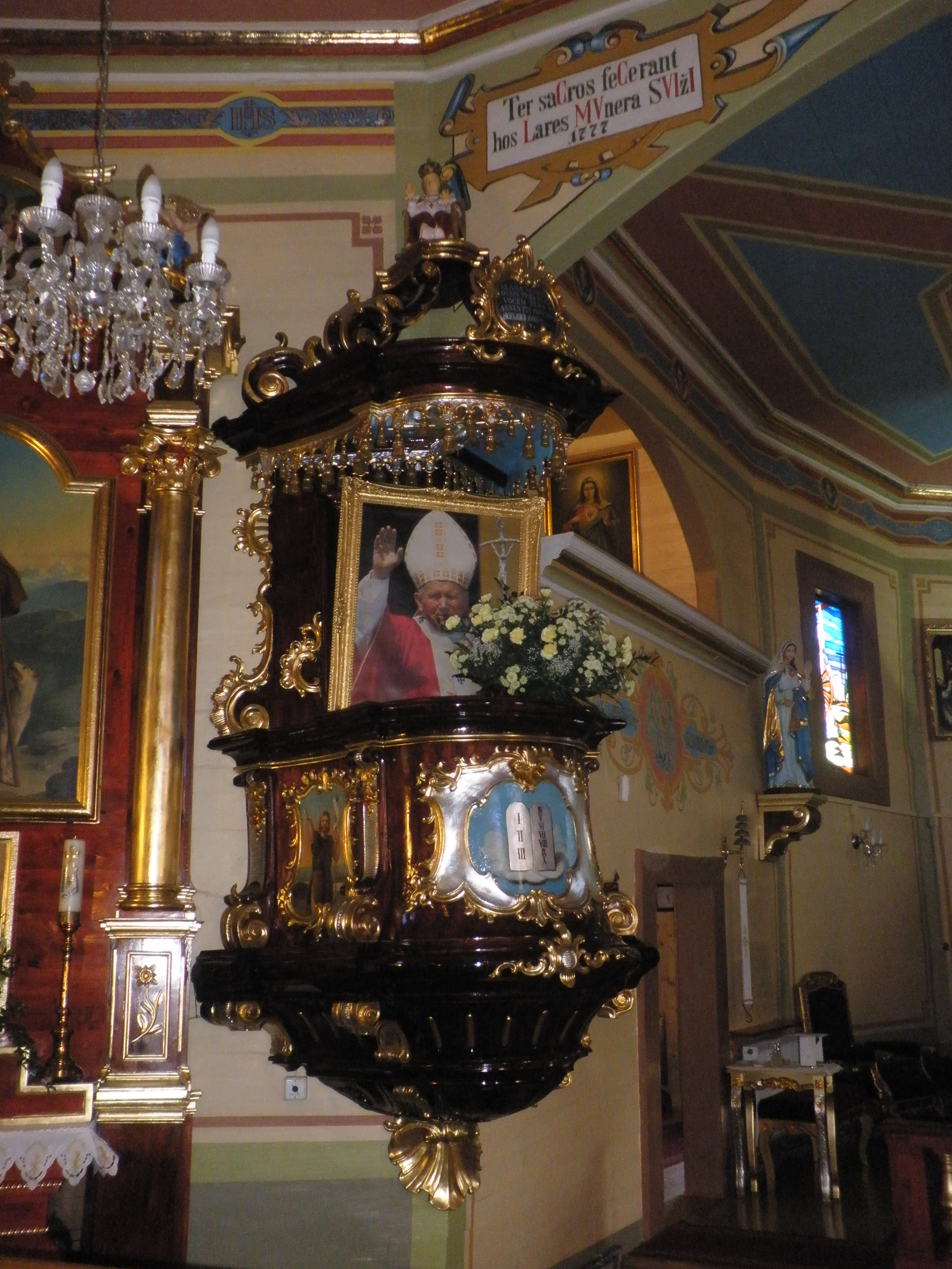 Pulpit in the Saint Michael Archangel church in Kończyce Wielkie (Teschen Silesia)